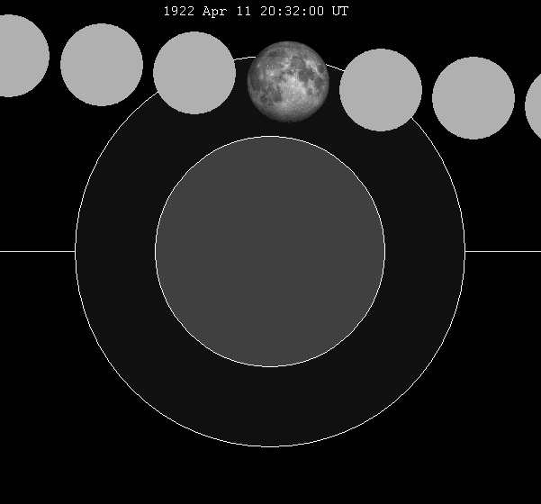 lunar eclipse chart of moon's path through the earth's shadow. thumb